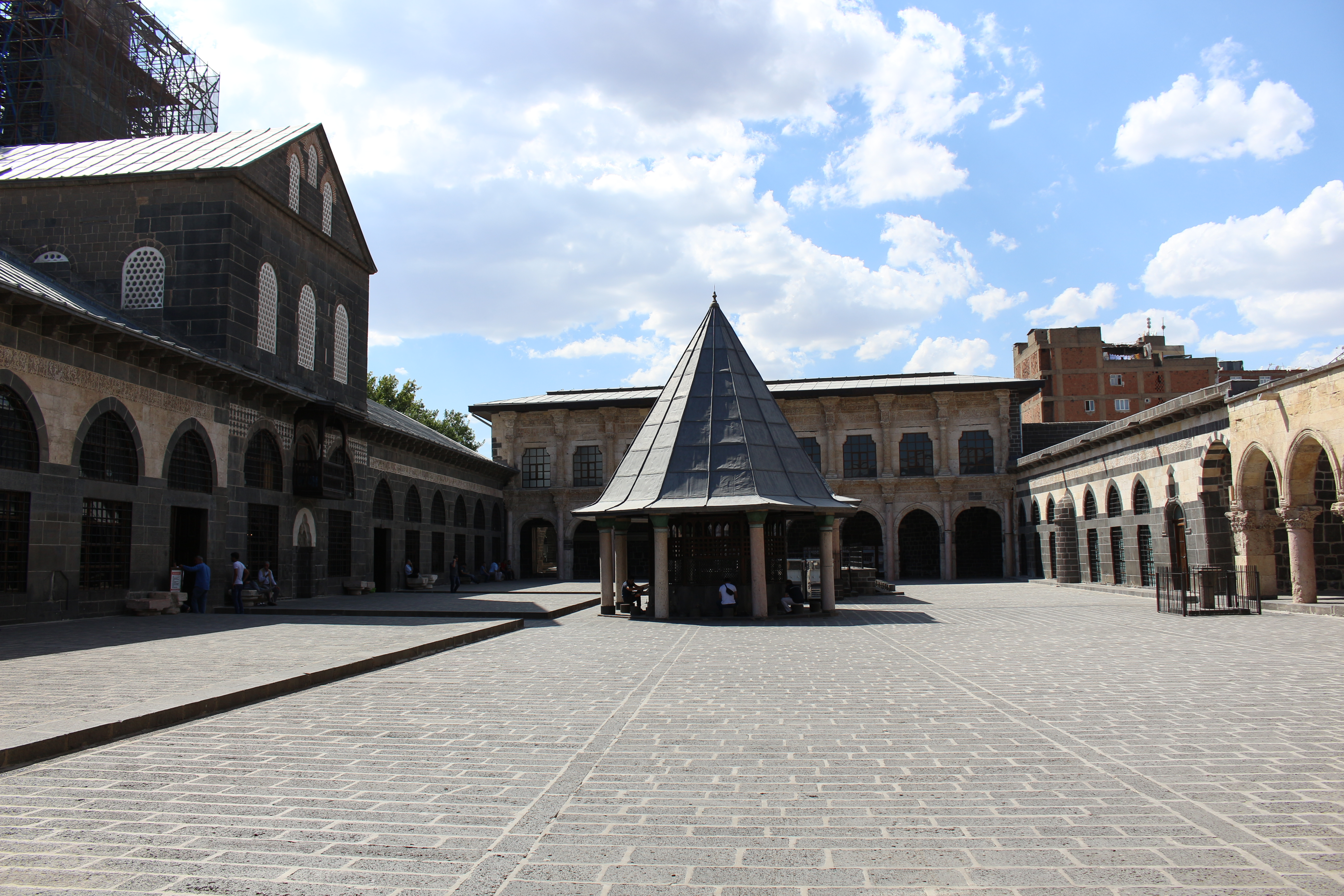 Great Mosque, Diyarbakir